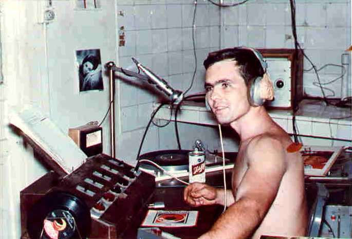 US Army specialist Tim Abney disc jockeying for American Forces Network, Vietnam (AFVN) in 1967 at the broadcast studio in Lai Khe.